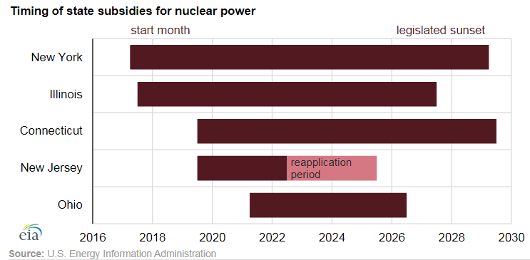 In late July 2019, Ohio became the fifth state in the United States to enact policies that provide for compensation or other assistance for in-state nuclear generating plants. October 7, 2019